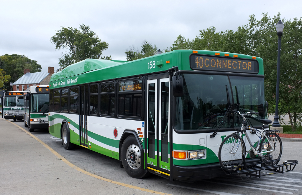 Bus,158 on its first day of service, sits among older siblings, Gillig and OBI buses at the Frederick Transit Center in 2011.